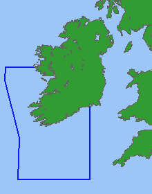 Own work - base country outlines of map are however derivative from :Commons:Image:British Isles.svg.